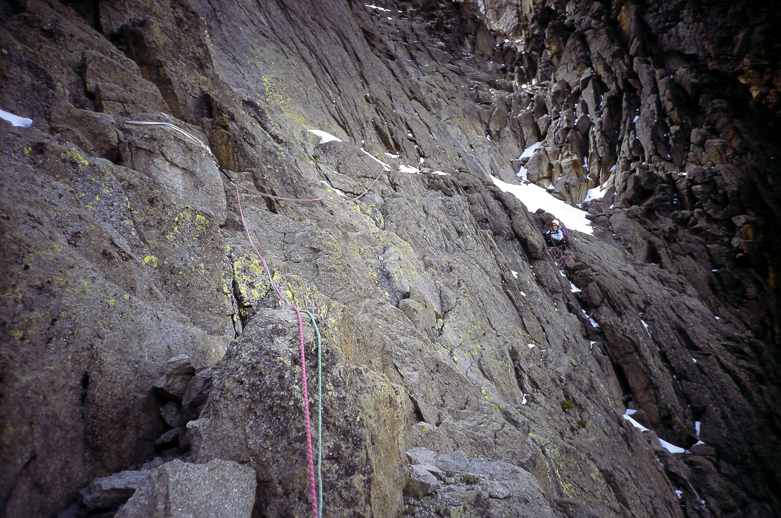 An easy section of the south-east gully up Point John (4,800m) on Mount Kenya.